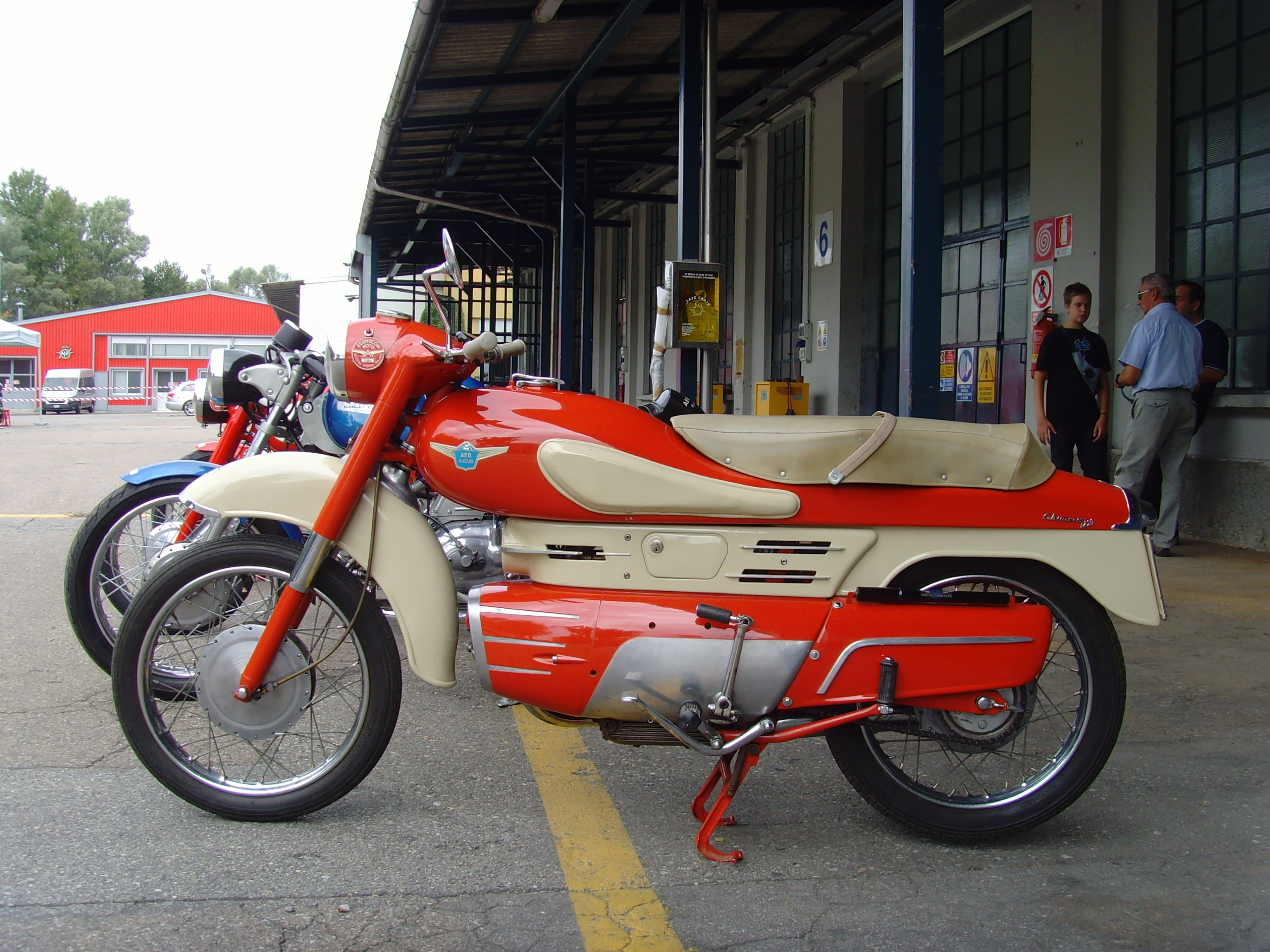 Aermacchi Chimera 250 (1968-1974)